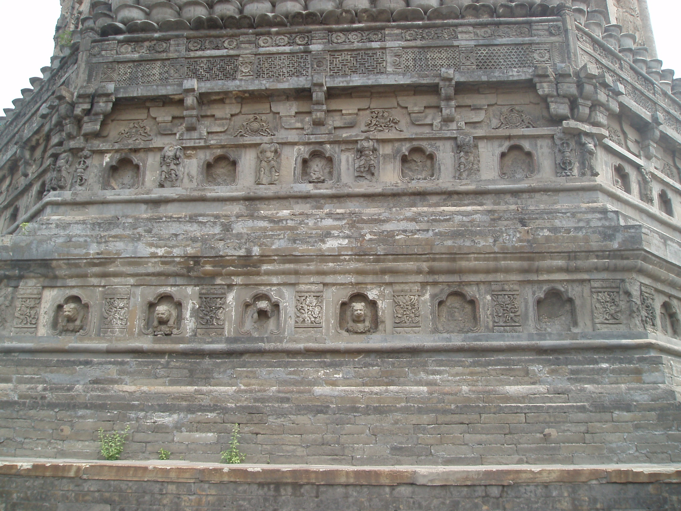 Temple of Tianning Temple in Beijing